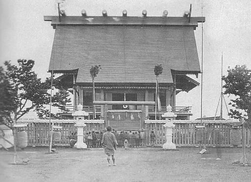 Tokyo Shokonsha(present-day "Yasukuni Shrine")